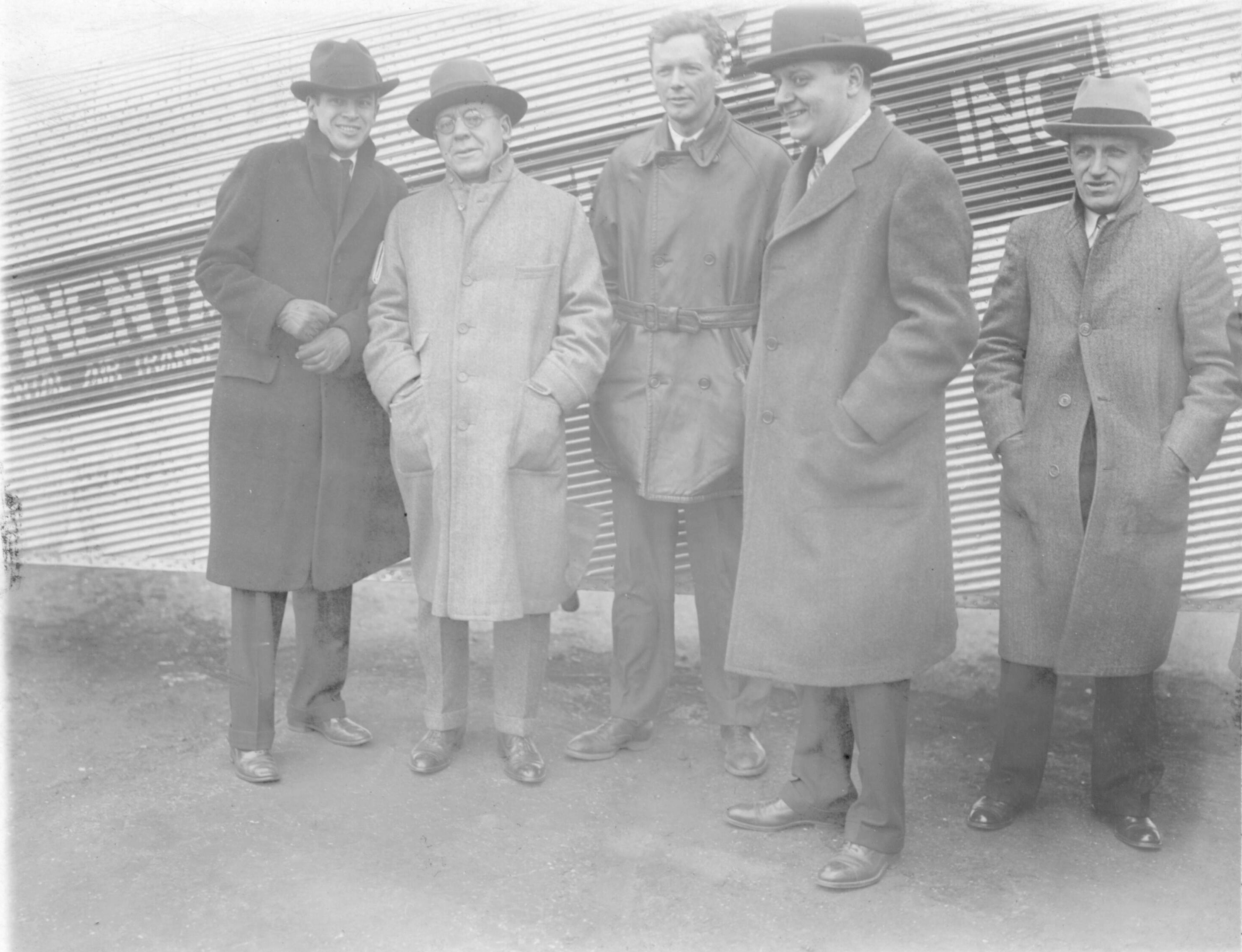 Charles Lindbergh in a TAT promo photo